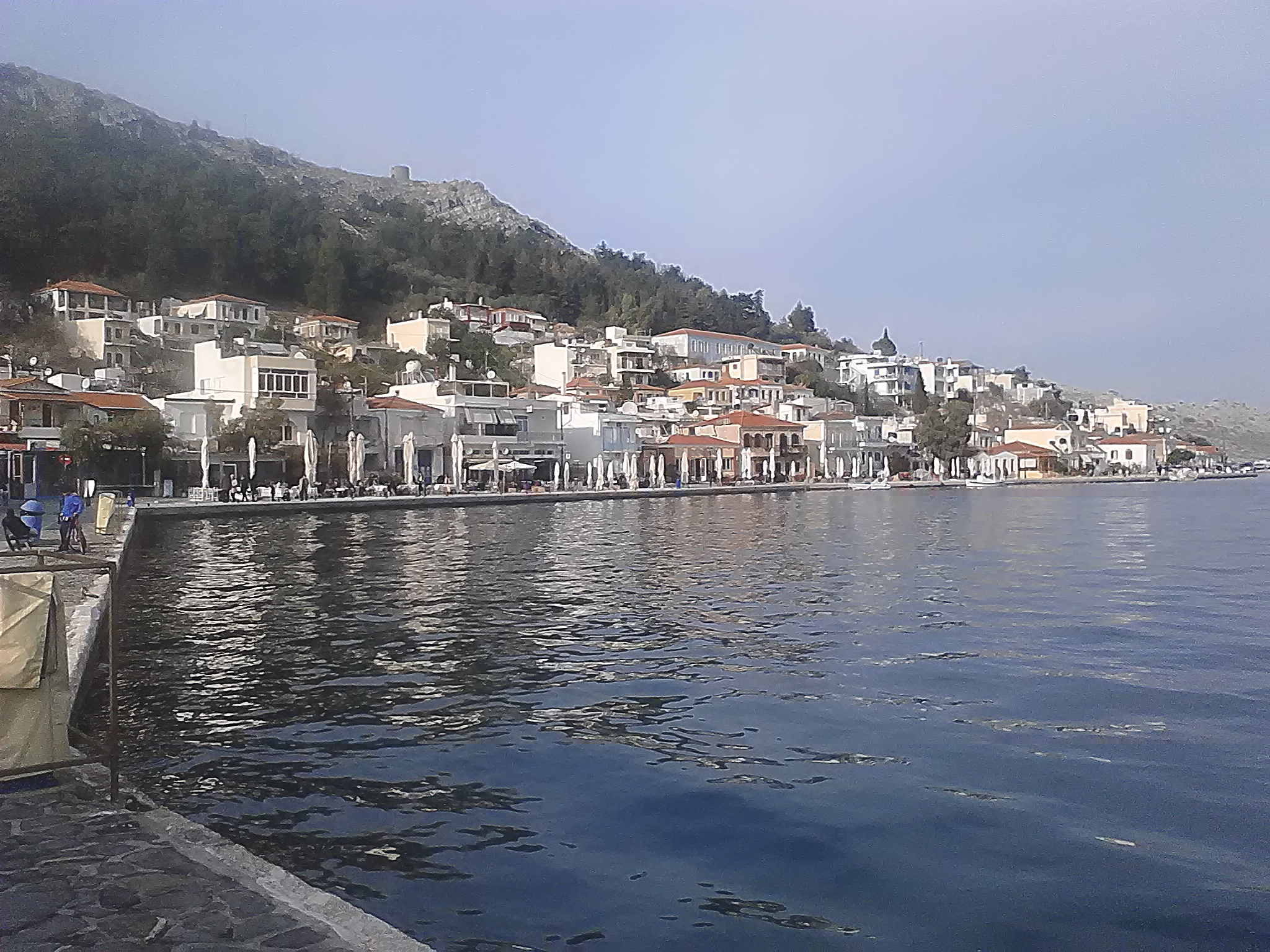 A view of Langada, Chios.